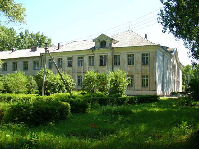 Hospital in Krasnoznamensk